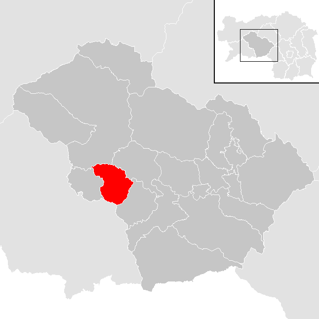 district Murtal in Styria, Austria